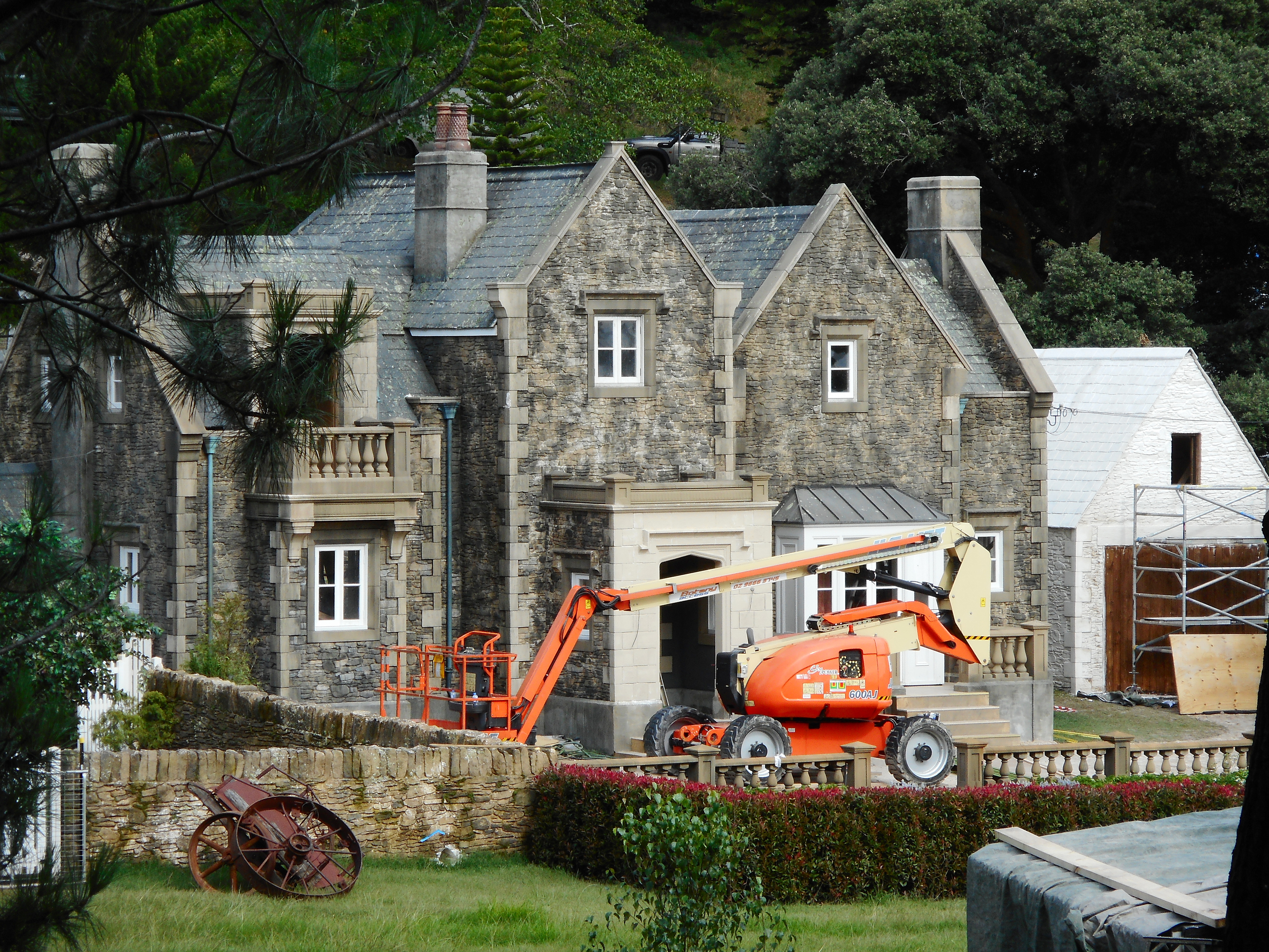 Peter Rabbit movie set, Centennial Park, Sydney